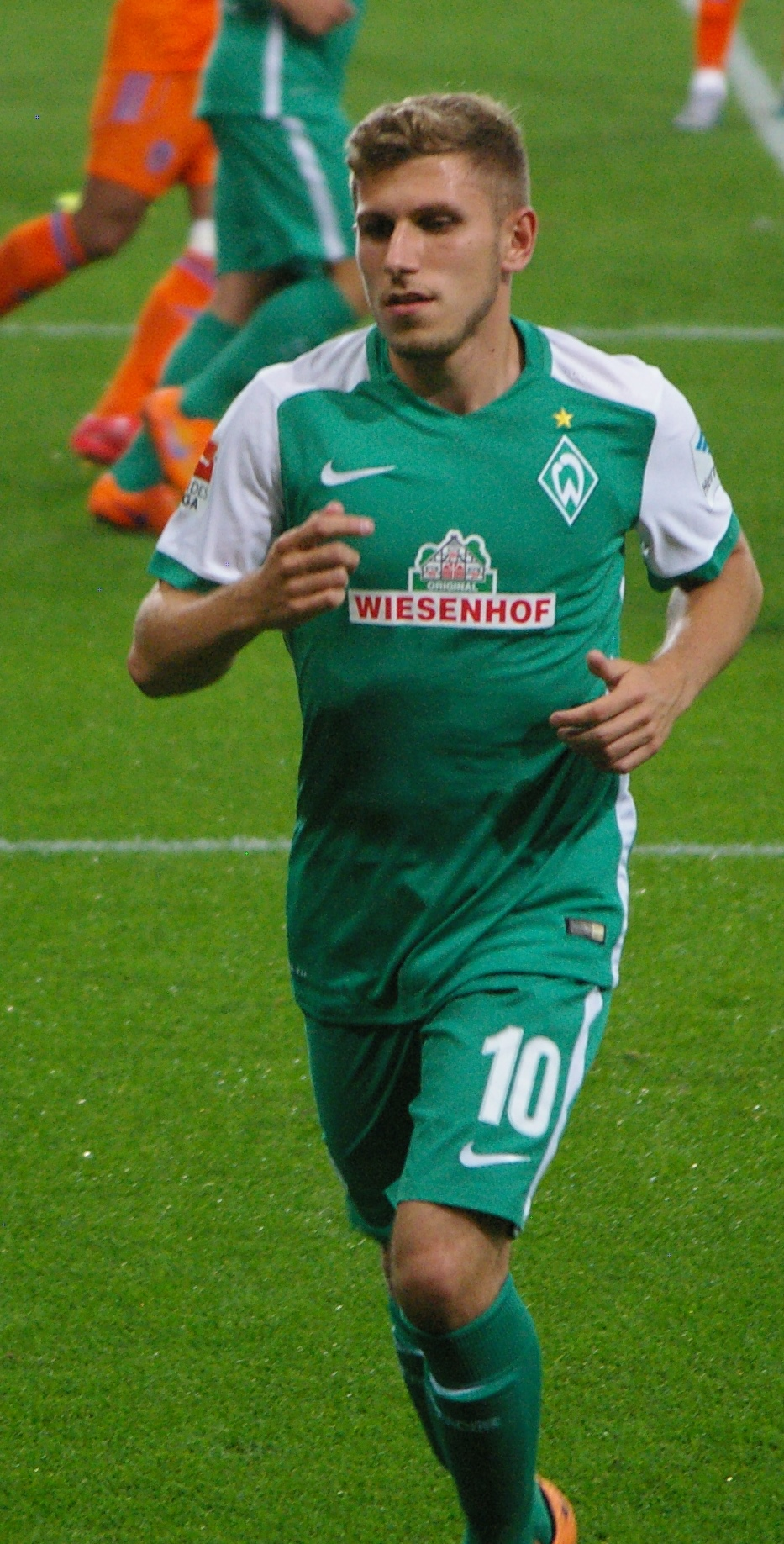 tournament with SV Werder Bremen, FC Southampton, Red Bull Salzburg and Valencia CF preseason friendly matches